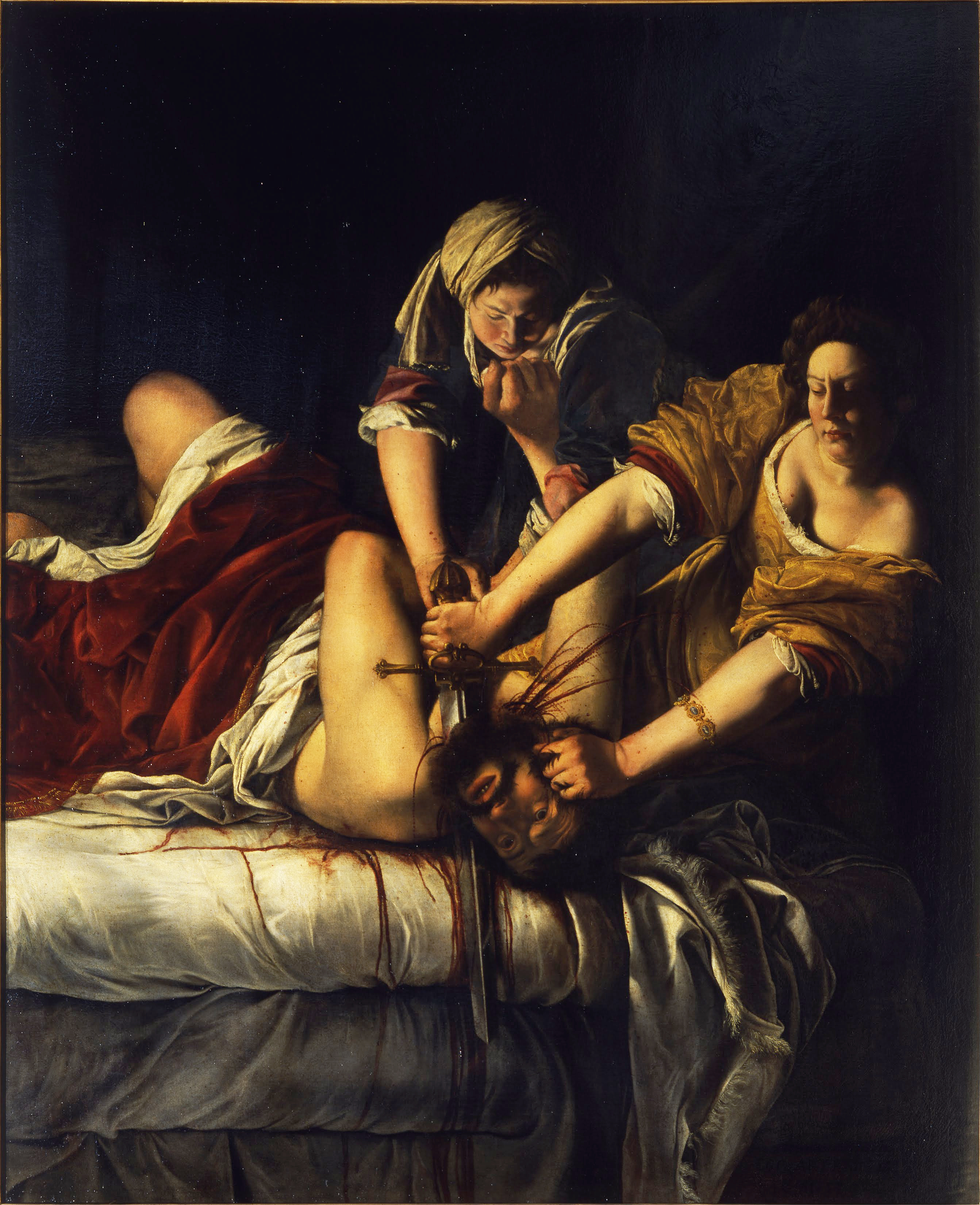 Two women pin down a man on a bed. With one hand, Judith holds his head; with the other, she slices his throat with a long sword. The intensity of the scene is highlighted by the dripping blood soaking the white bed sheets and the man's eyes wide open — conscious, but helpless. Artemisia is more a champion of strong women rather than a woman obsessed with violence and revenge.